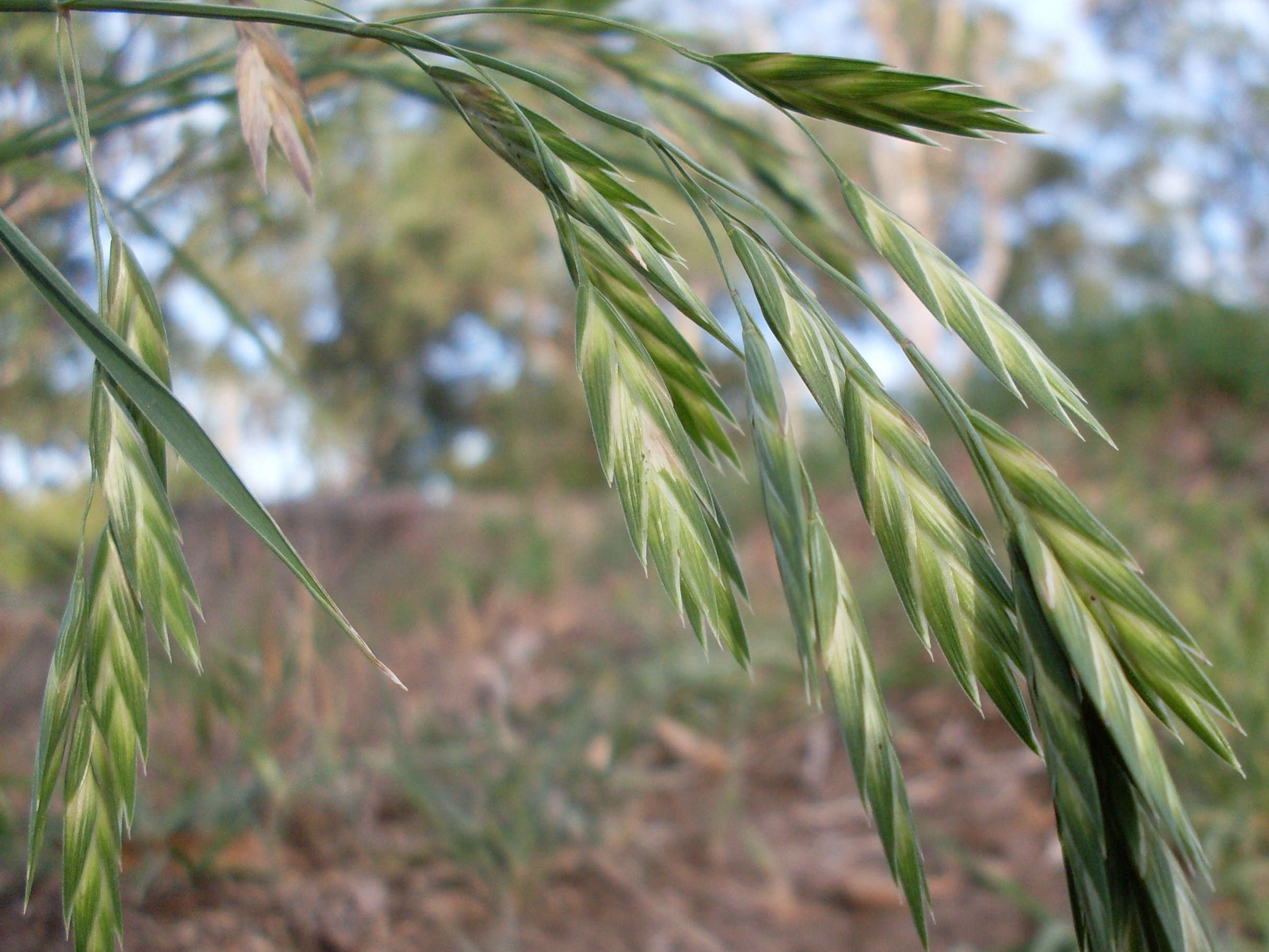 Praire grass (Bromus catharticus) is a weed of disturbed areas. Como NSW Australia, December 2008.